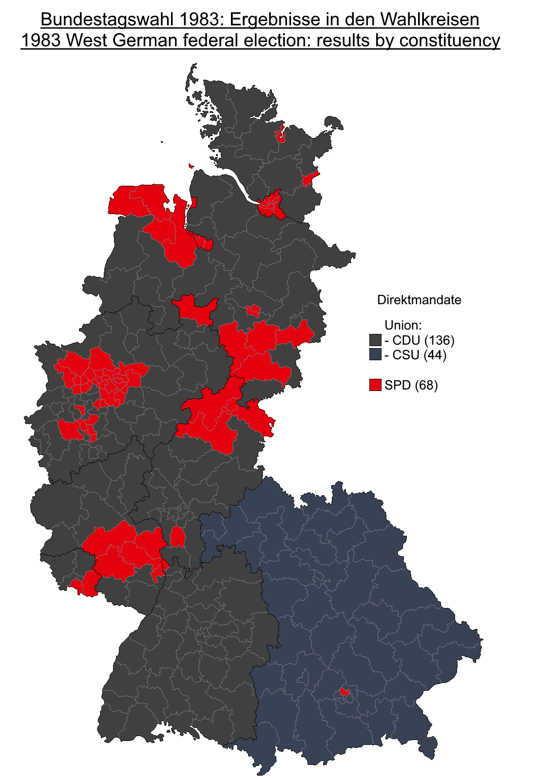 Results of the (West) German federal elections of 1983, showing direct seats won by party